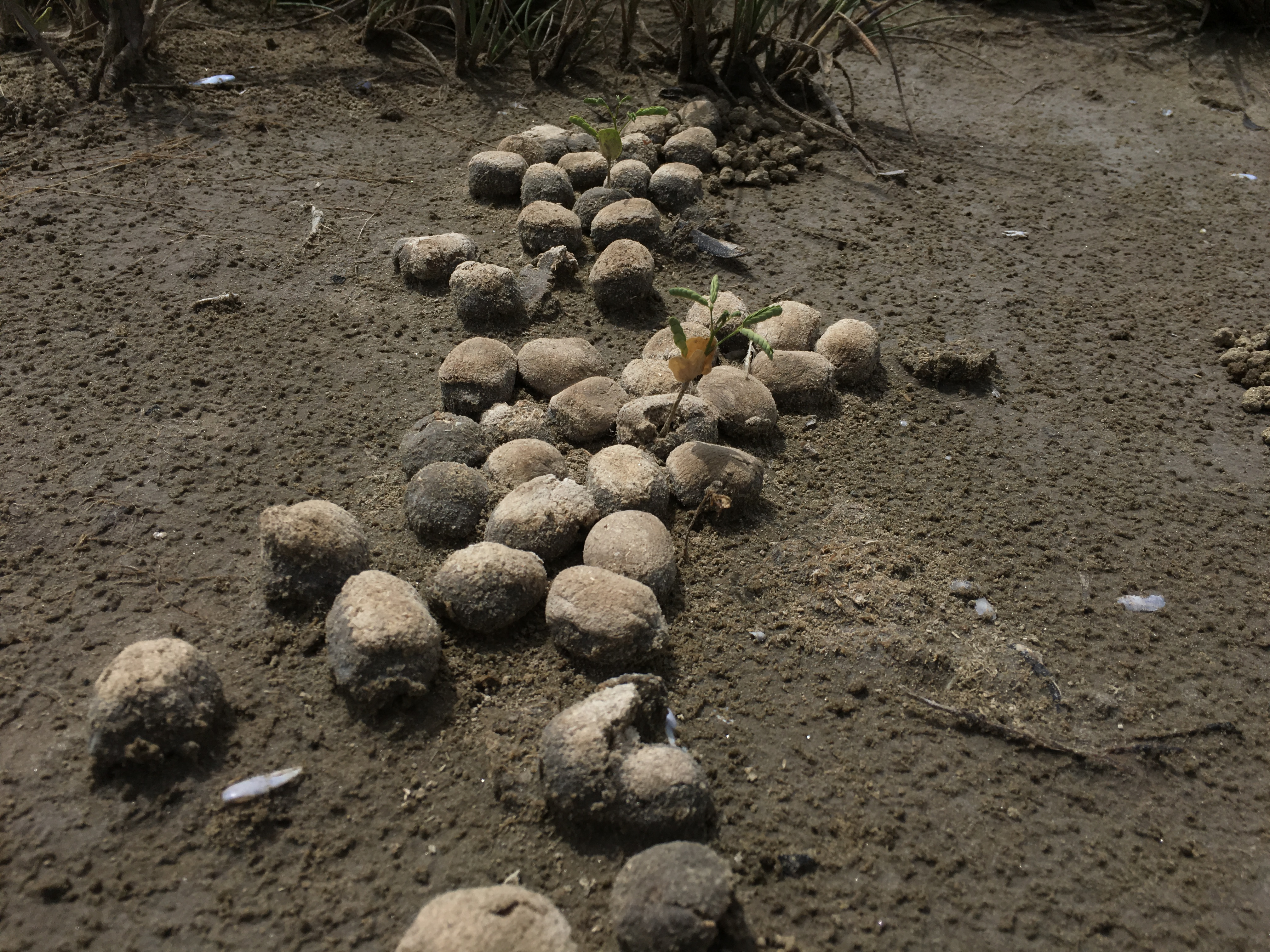 Camel dung piles with Prosopis seedling germinating in Kutch, Gujarat, India